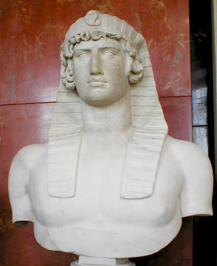 Antinous as Osiris, wearing the nemes and the uraeus; the nose, mouth, left part of the face and major part of the bust are modern restorations. From the villa of Hadrian in Tivoli.